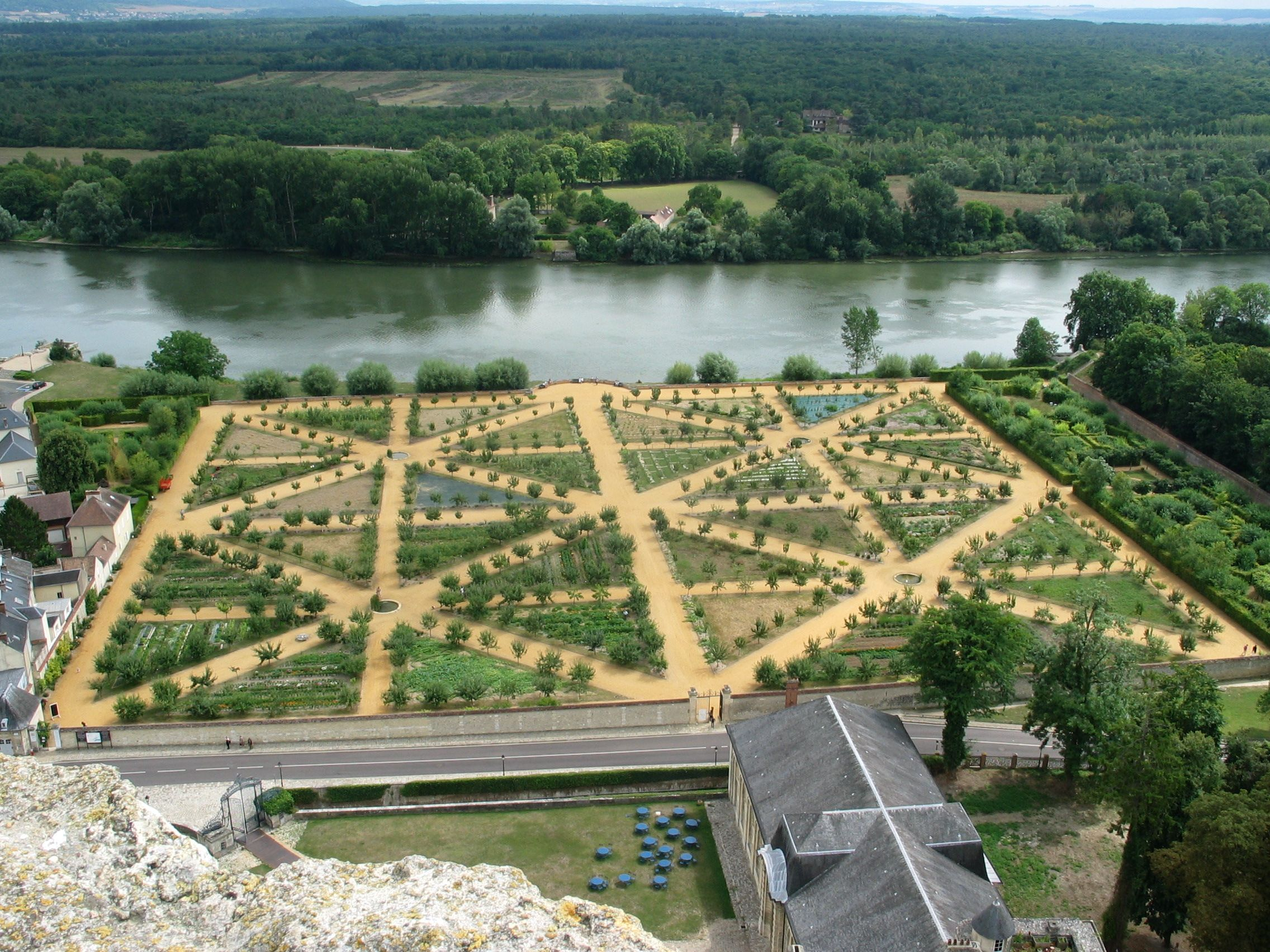 La Roche-Guyon castle's vegetable garden.